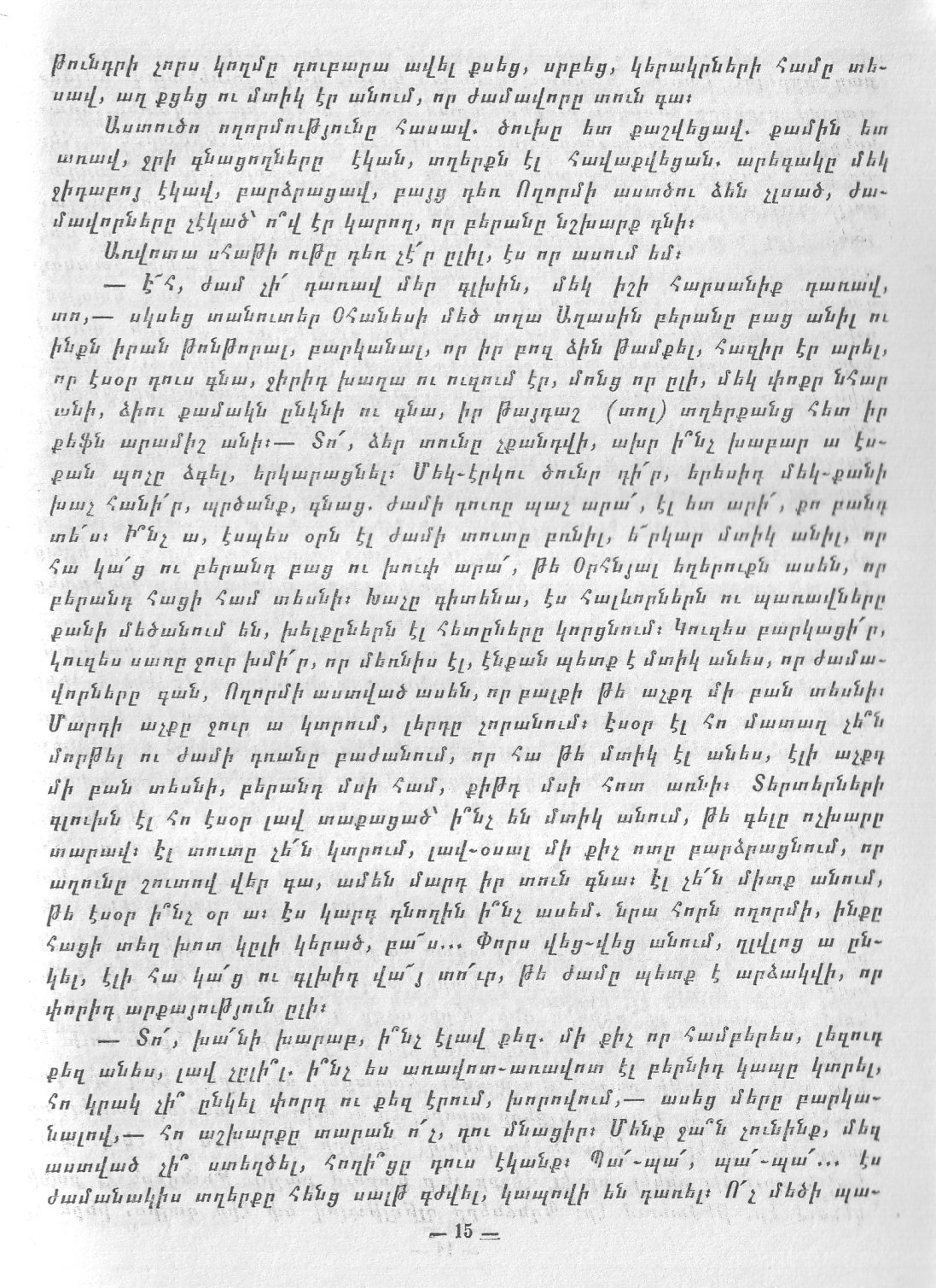 Scan of a novel by Khachatur Abovian (1809–1848)― Խաչատուր Աբովյանի «Վերք Հայաստանի» վեպի տեսածրում